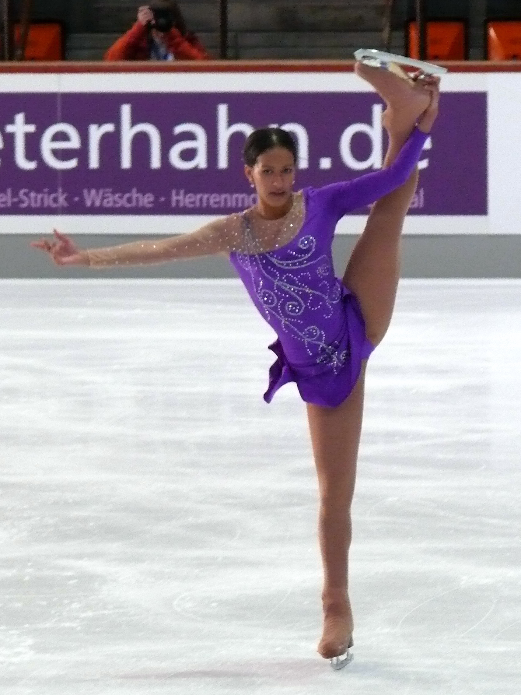 Nella Simaova (CZE) at her free program at the Nebelhorntrophy 2008 in Oberstdorf, Germany